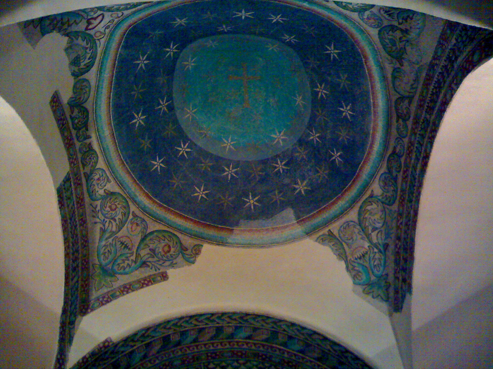 Mosaic from five century attestation one of most ancient christian church in Italy.